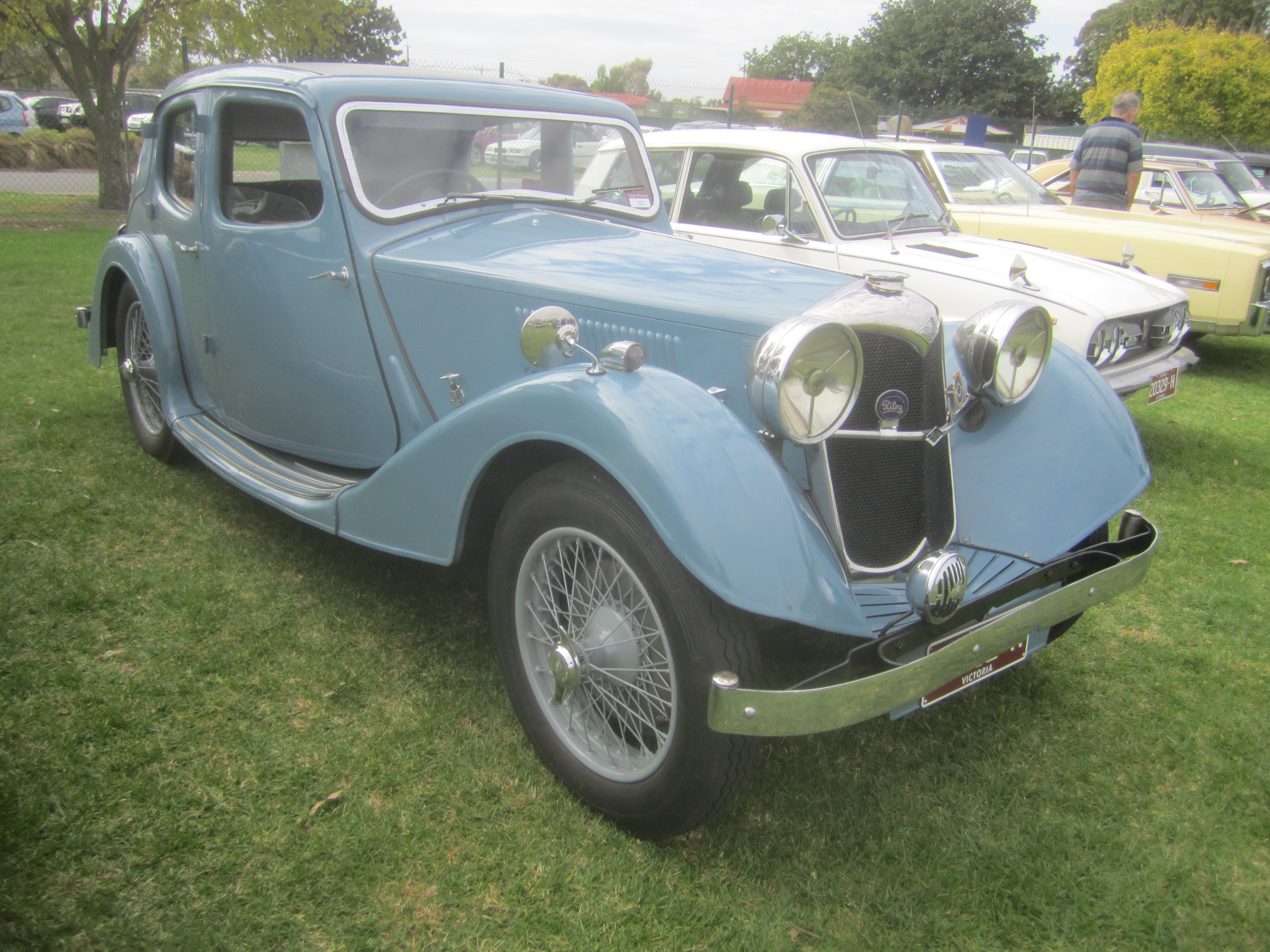 Riley 12/4 Kestrel saloon 1934 The Kestrel was the sporty saloon The 12/4 replaced the 12/6 Kestrel, this the 4 light car was built in 1934-35, and was replaced in 1935 by a Kestrel with a new 6 light body. The Kestrel was a fastback saloon, also available was the Falcon standard saloon and Lynx Open Tourer Engine; 55hp 1496cc 4 cyl OHV